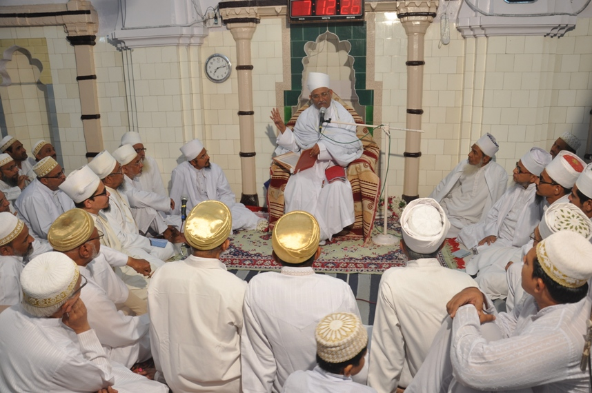 In the year 1436 AH, the then mazoon saheb visited the mosque in Ramazaan